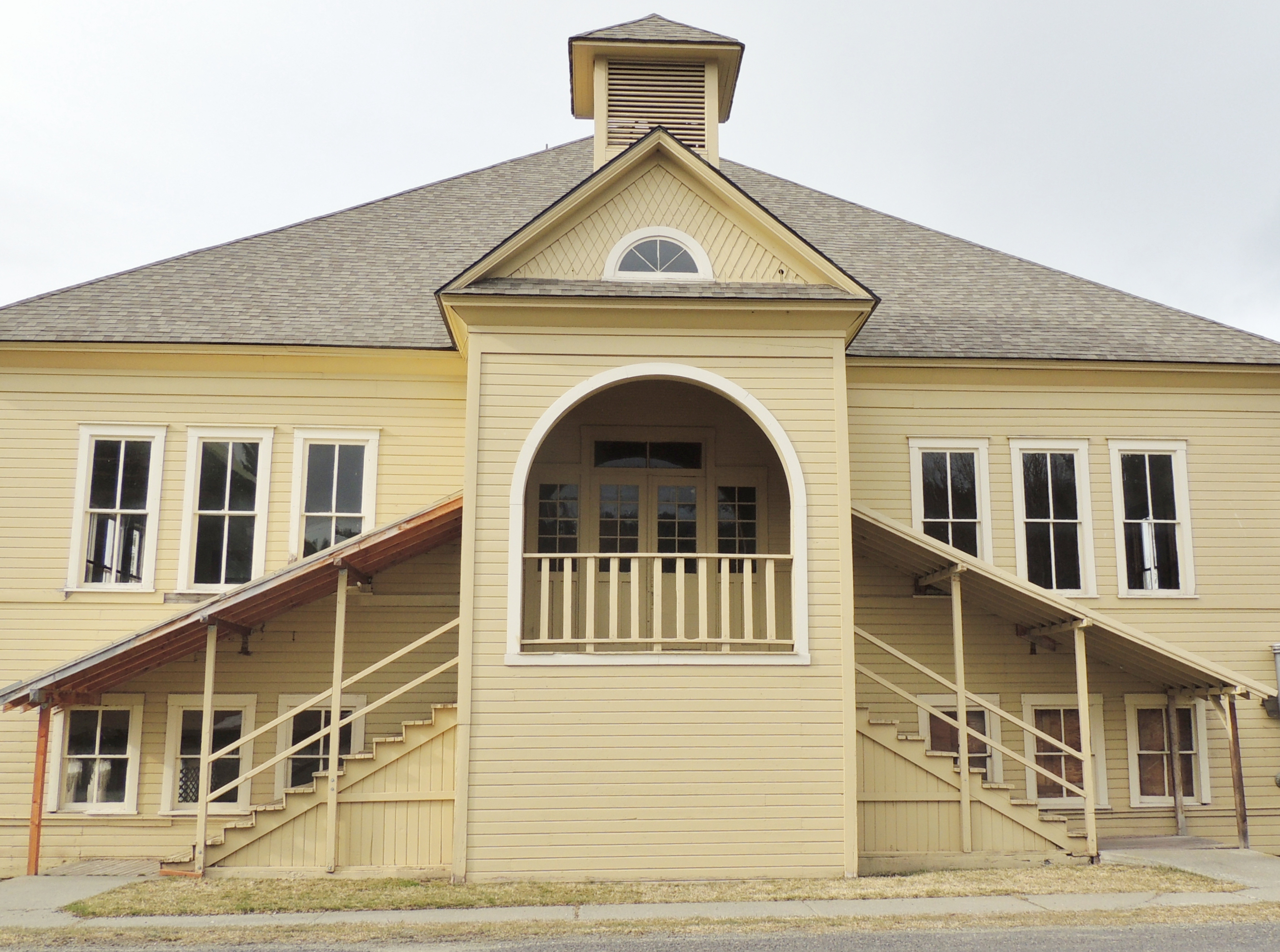 Old school in Ronald Washington, I cannot tell if it is in use. I took the easy road on this topic.